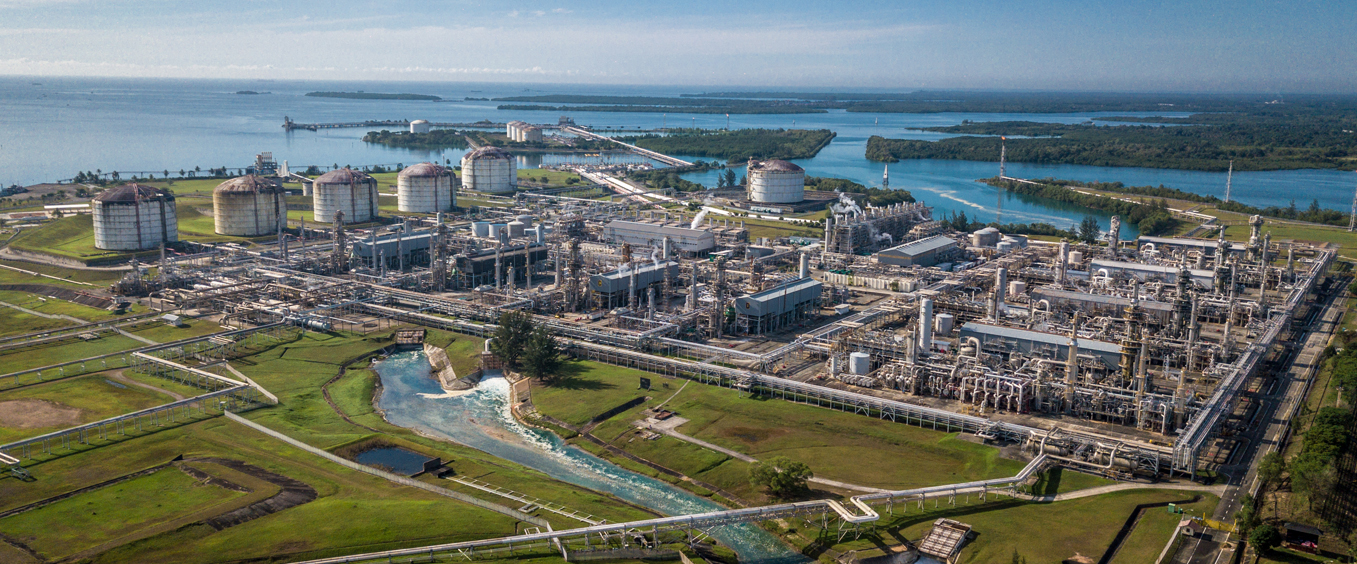 Aerial photo by PT Badak NGL